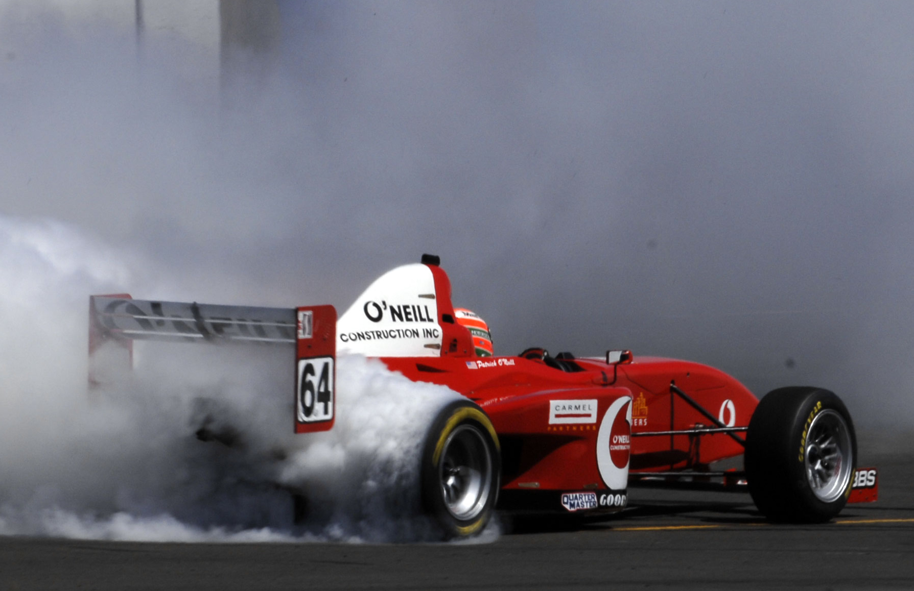 FCC Driver celebrates championship win with a massive burnout